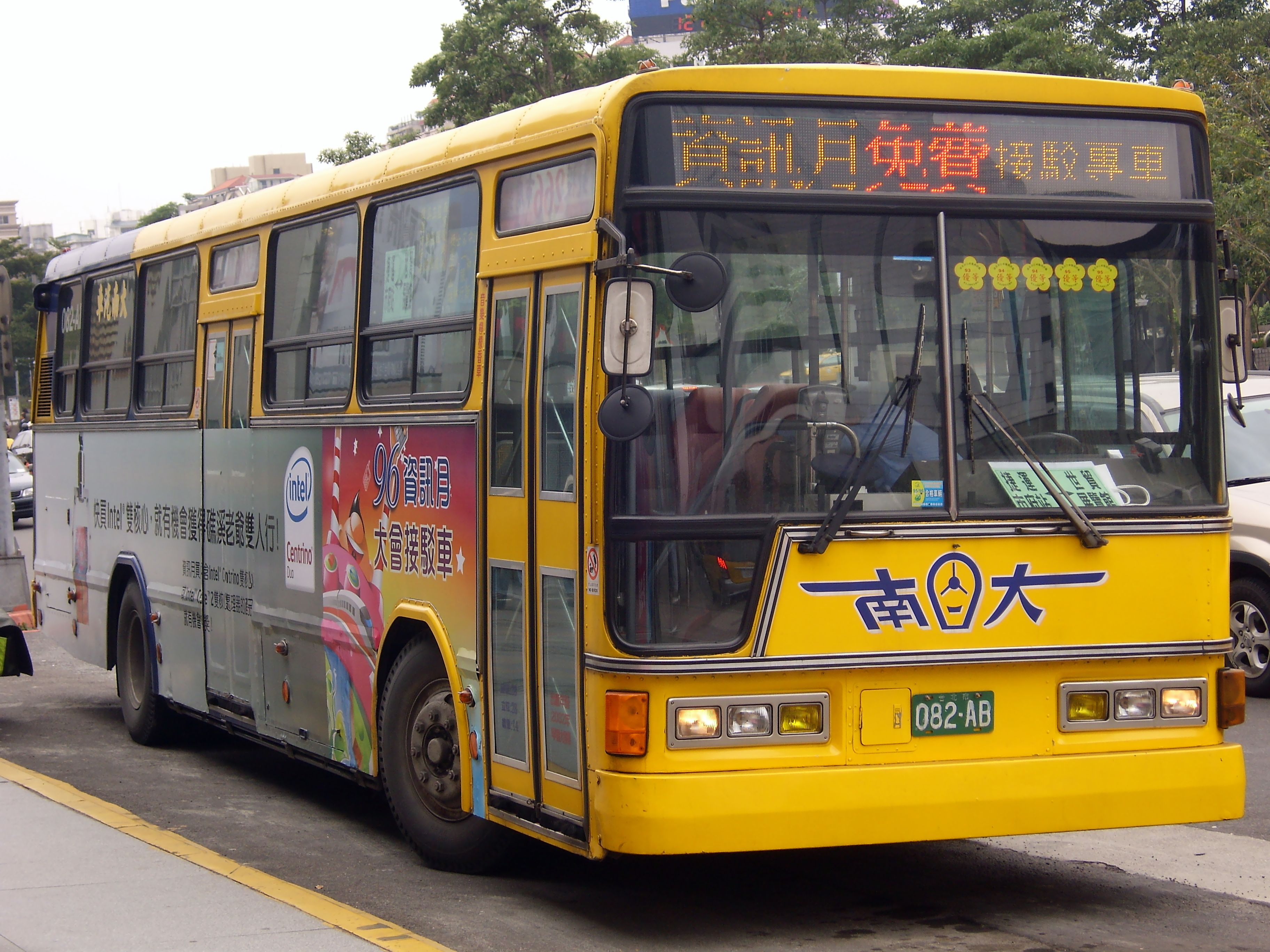 2007 Taipei IT Month: Shuttle Bus by Da-nan Bus Co., Ltd.